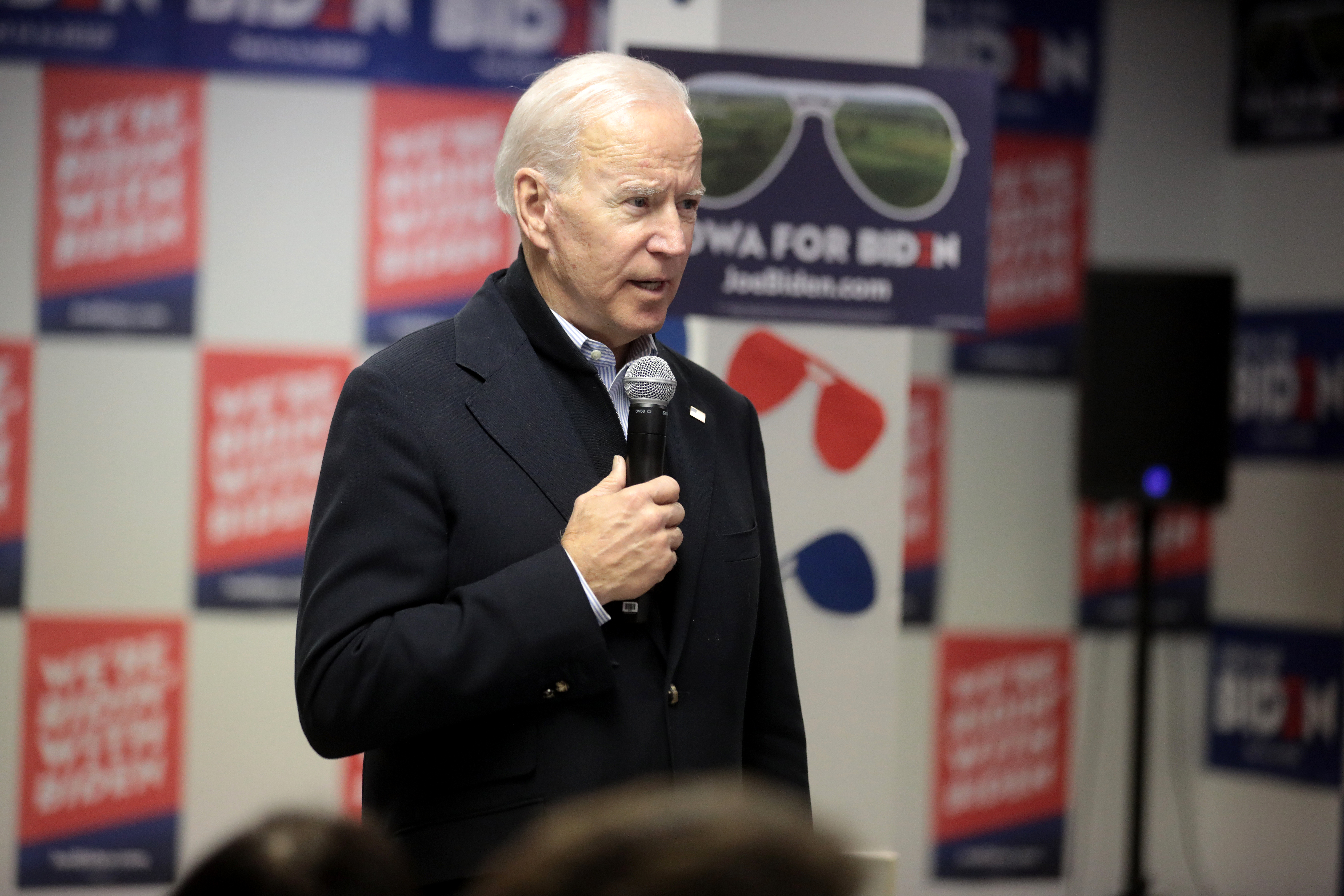 Former Vice President of the United States Joe Biden speaking with supporters at a phone bank at his presidential campaign office in Des Moines, Iowa.